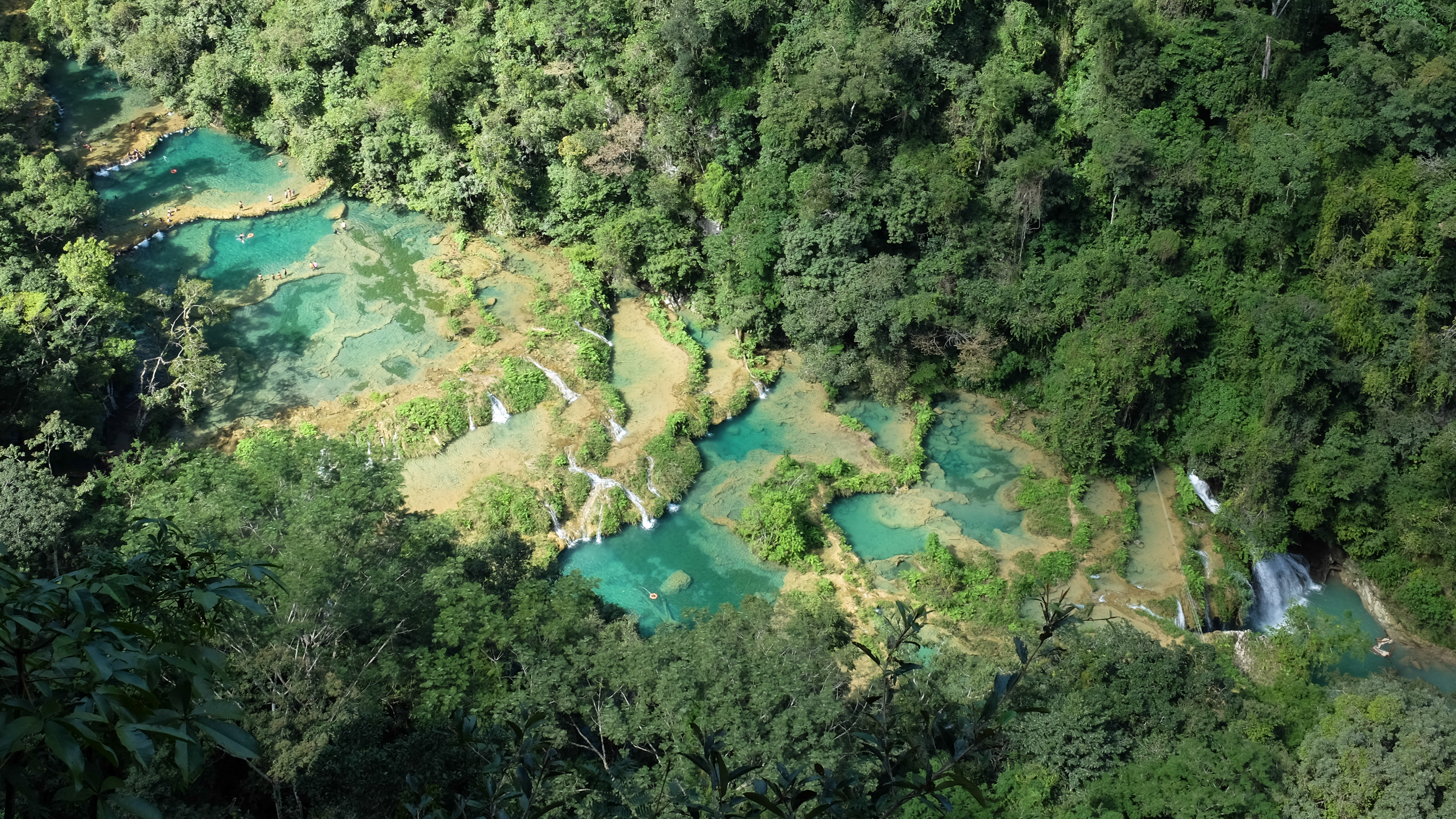 Semuc Champey is famous for its turquoise pools made of limestone. It is located within a Guatemalan jungle near the town of Lanquin.